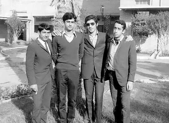 Mohammad Javad Tondguyan (1938–?), Iran Minister of Oil